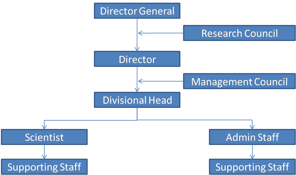 Picture showing Organizational Structure of CMERI